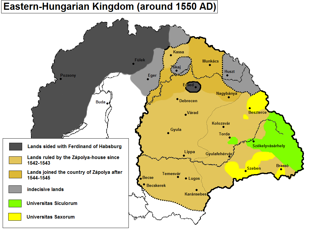 This map has been uploaded by Electionworld from to enable the Wikimedia Atlas of the World . Original uploader to was Fz22, known as Fz22 at . Electionworld is not the creator of this map. Licensing information is below.